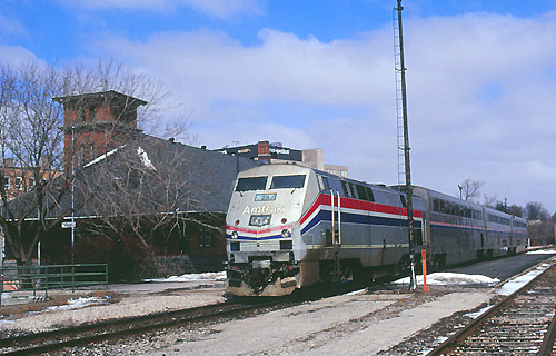 The westbound International at Guelph station in March 2004